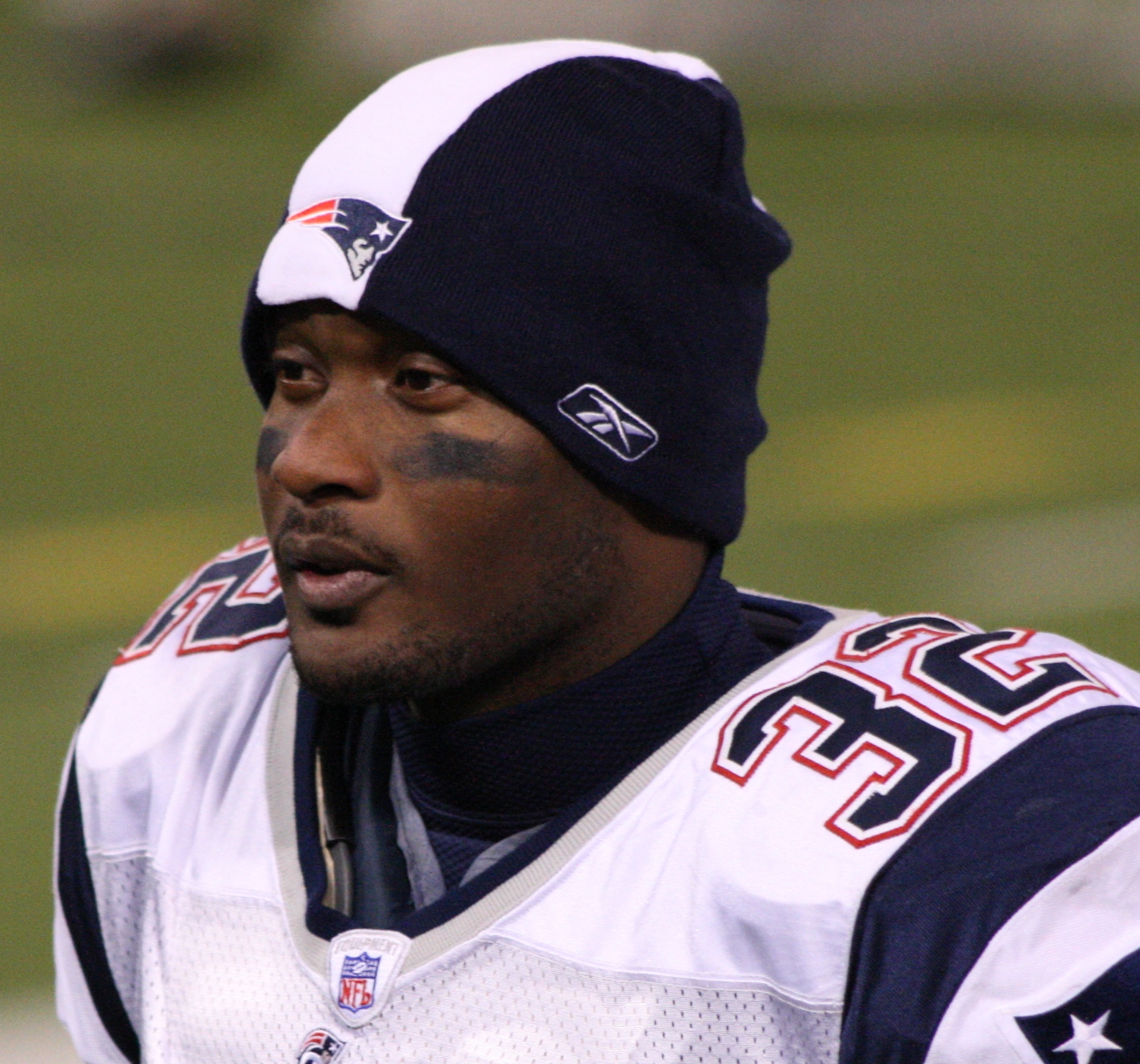 New England Patriots safety Rashad Baker at M&T Bank Stadium for a Monday night Football game on Dec. 3, 2007.